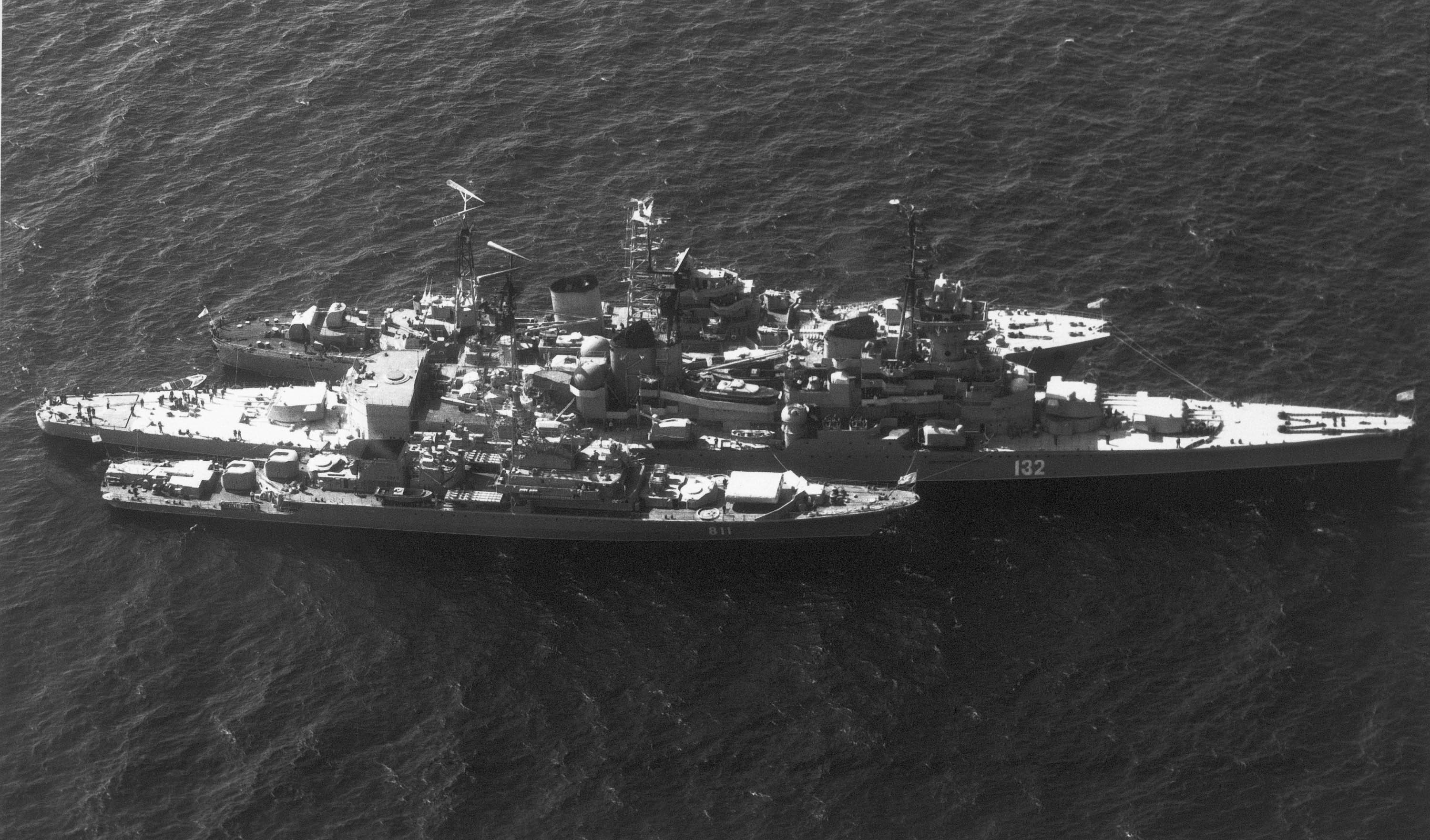 Soviet Navy SKR project 1135 Bezzavetnyy (later Ukrainian Navy frigate Dnipropetrovs'k), command cruiser project 68-U Zhdanov and submarine tender project 310 Magomed Gadzhiev at the bay Sollym.